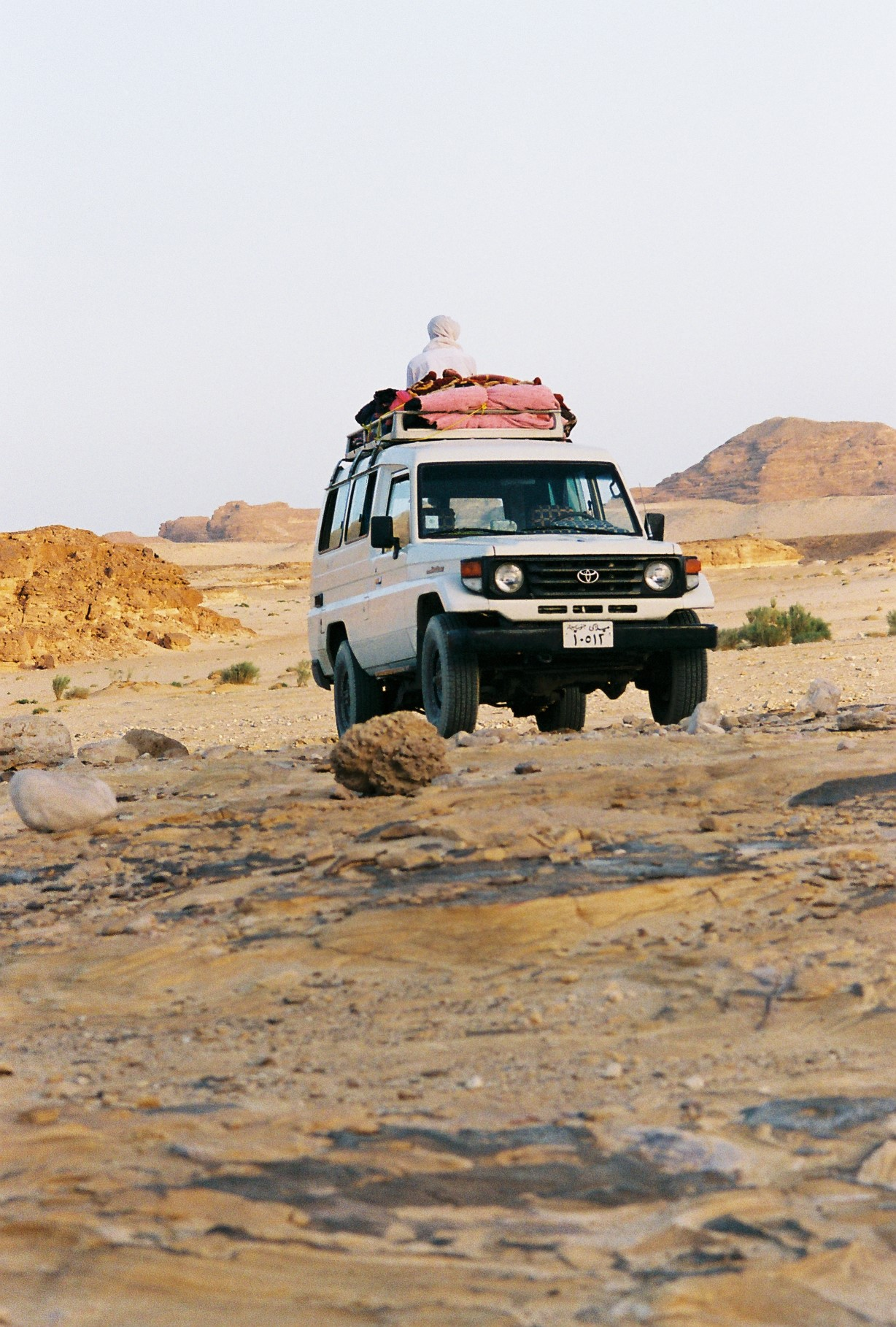 This is a photograph of a 4x4 car, typically used by Egyptian Nomads during safari trips in the desert of Sinai for transporting explorers and travelers. The photo was captured on 35mm film using a "Nikon FM2 (SLR)" camera. This is an image with the theme "Africa on the Move or Transport" from: Egypt